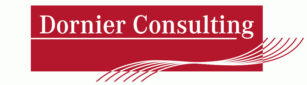 This is the official logo for Dornier Consulting GmbH.